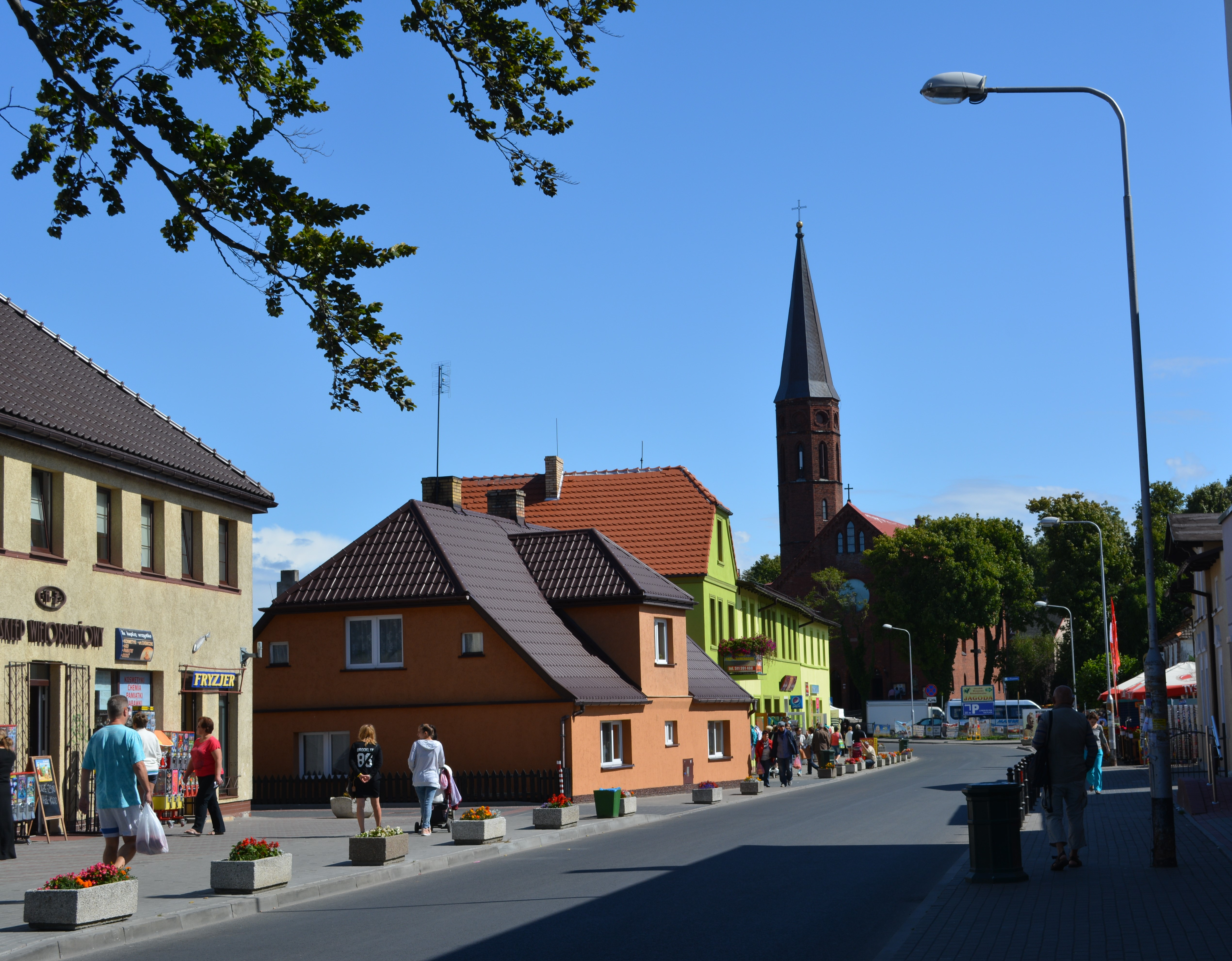 Nadmorska street of Sarbinowo, in the background the church of village, municipality Mielno, Koszalin County